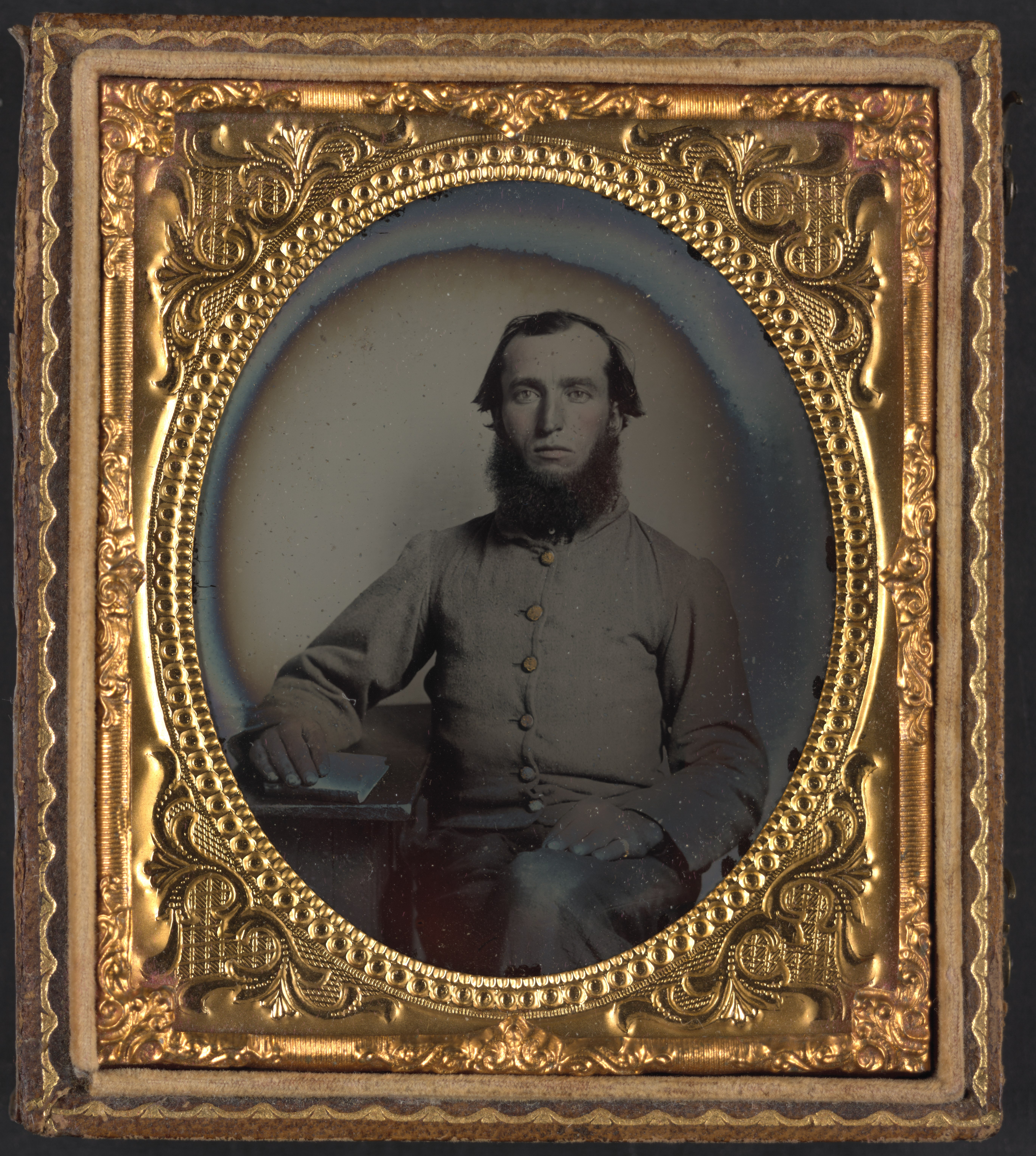 Title: Joshua Whitten of 45th North Carolina Infantry Regiment seated at a desk with his hand on a book Abstract/medium: 1 photograph : hand-colored ambrotype ; plate 82 x 69 mm (sixth plate format), case 94 x 82 mm.